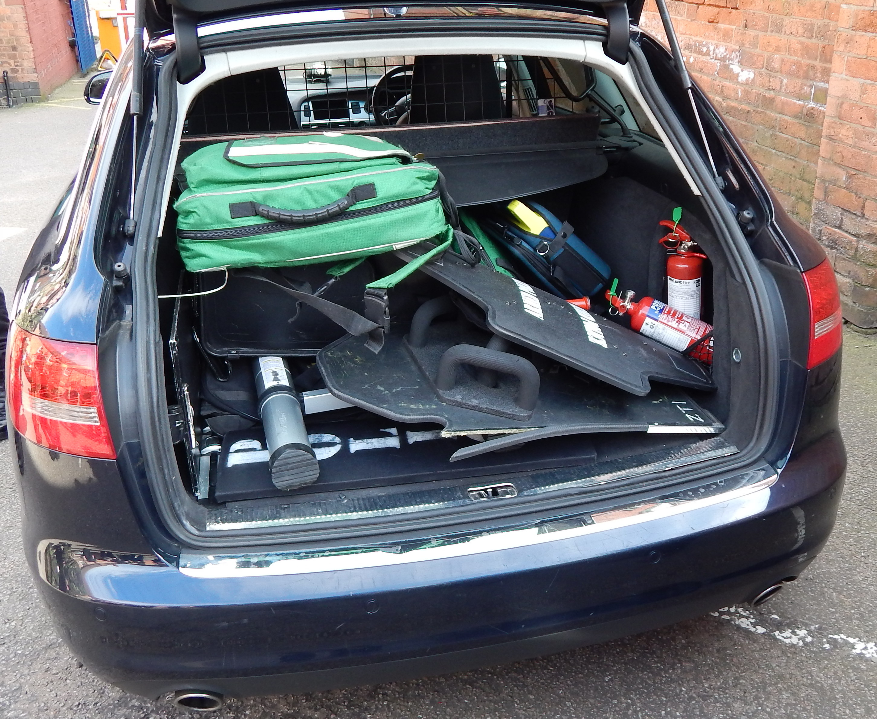 Boot of an unmarked armed response vehicle (ARV) belonging to West Midlands Police. The rear of the vehicle has been customised to accommodate an armoured box for the weapons; other visible equipment includes an advanced first-aid kit, fire extinguishers, and ballistic shields. Photographed at Sparkhill police station with the kind permission of the crew on the condition that the officers' faces and the vehicle's number plate were omitted.